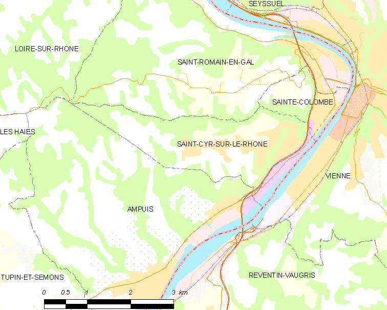 Map of French municipality